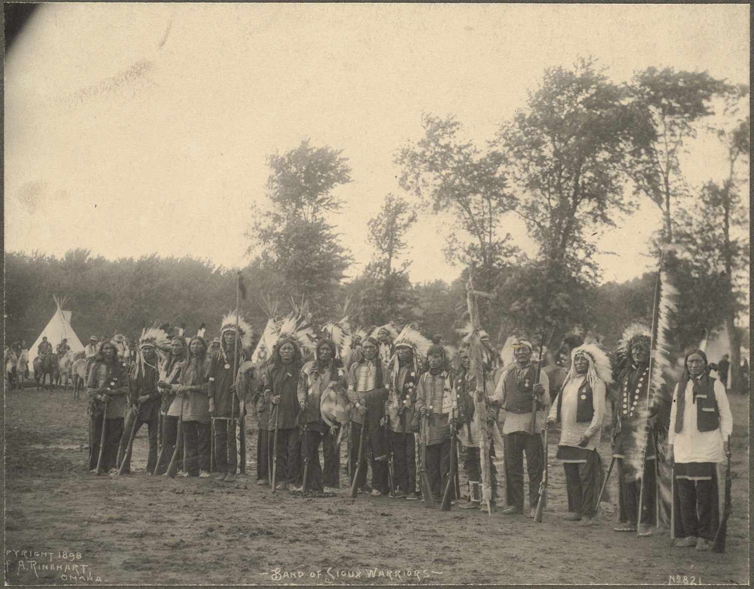 BPLDC no.: 09_06_000022 Rinehart no.: 821 Title: Band of Sioux Warriors Photographer: Rinehart, F. A. (Frank A.) Copyright date: 1898 Extent: 1 photographic print : platinum Genre: Platinum prints; Portrait photographs Subject: Indians of North America; Dakota Indians; Trans-Mississippi and International Exposition (1898 : Omaha, Neb.) BPL Department: Print Department NMAI Link